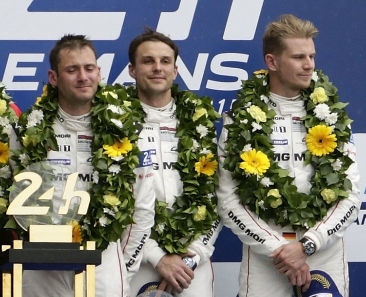 A crop of a photo showing the winners of the 2015 24 Hours of Le Mans (L-R): Nick Tandy, Earl Bamber, and Nico Hülkenberg